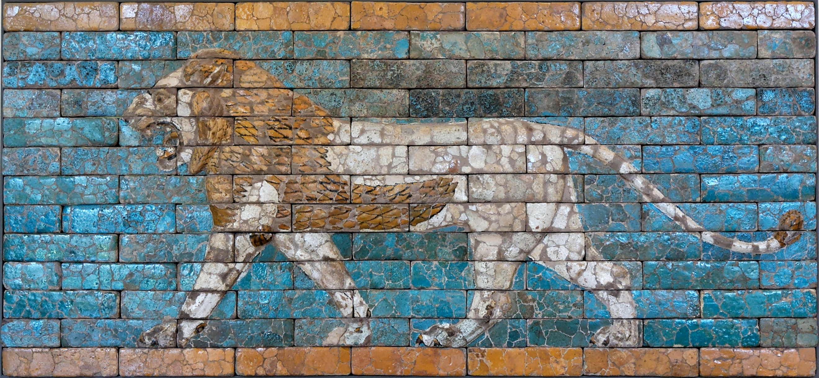 Passing lion, brick panel from the Procession Way which ran from the Marduk temple to the Ishtar Gate and the Akitu Temple. Glazed terracotta, reign of Nebuchadrezzar II (605 BC–562 BC), Babylon (Iraq).